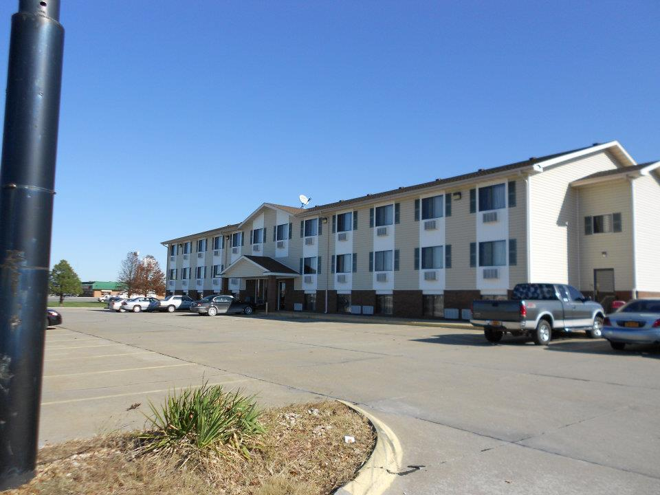 Super 8 Kingdom City, Missouri as seen from southwestern corner of parking lot.